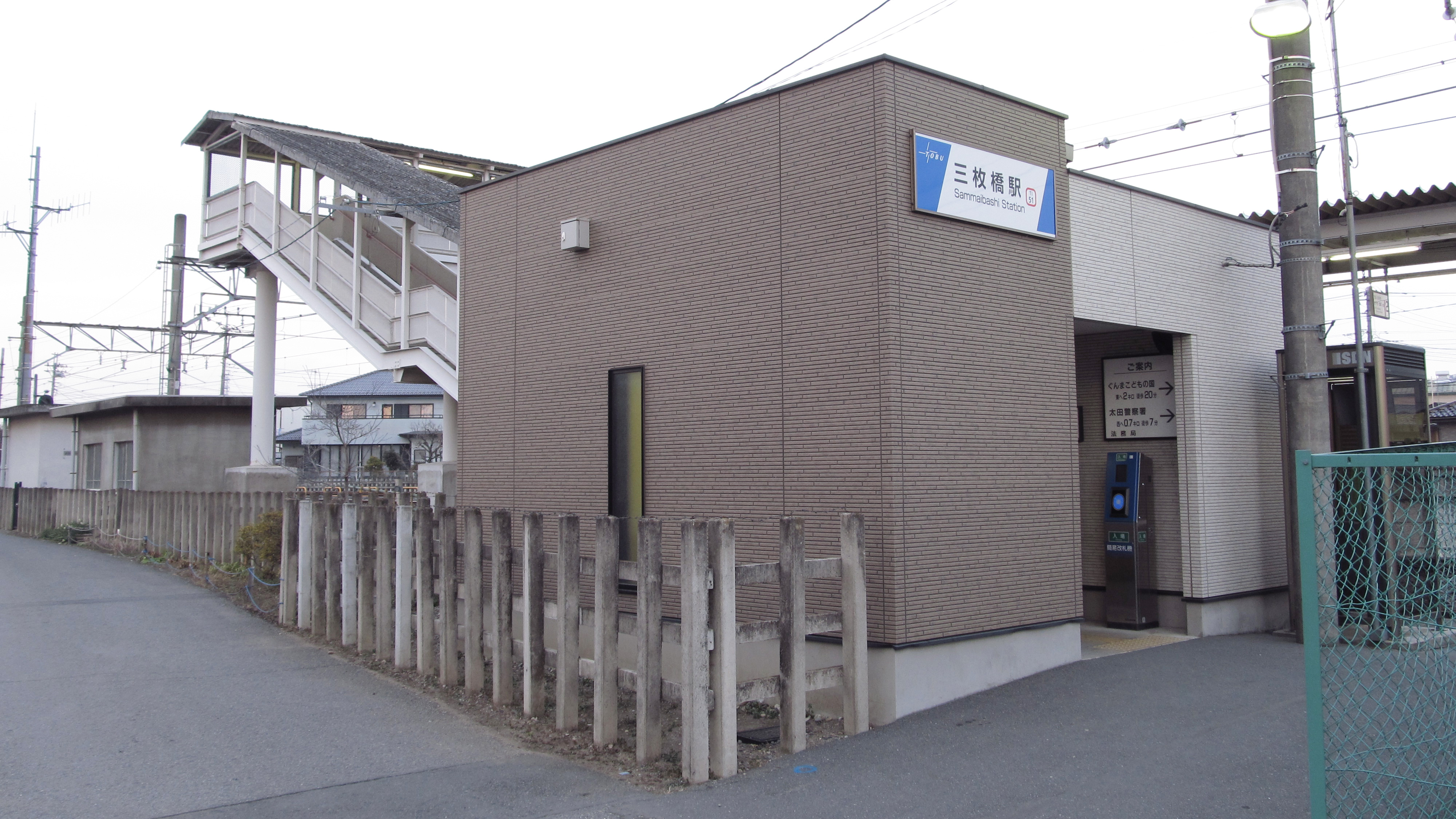 The entrance to Sammaibashi Station on the Tobu Railway Kiryū Line in Ōta city, Gumma prefecture, Japan